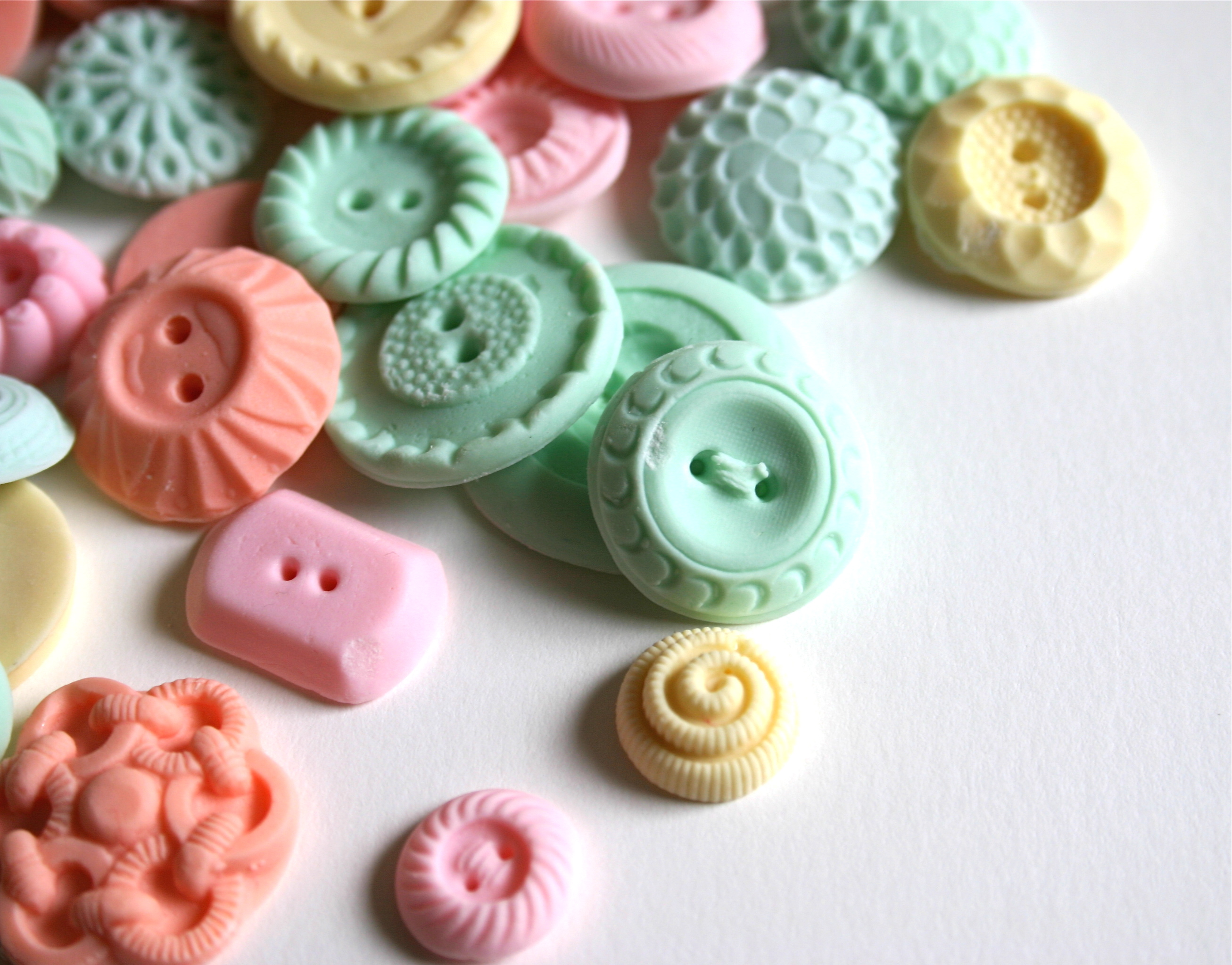 Pastel Peppermint Button Candies